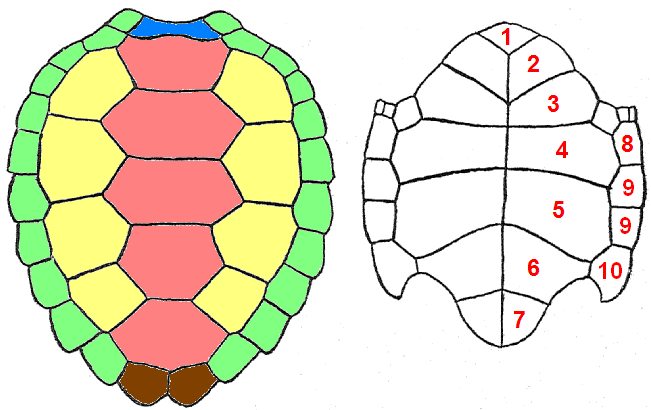 Shell of Chelonia